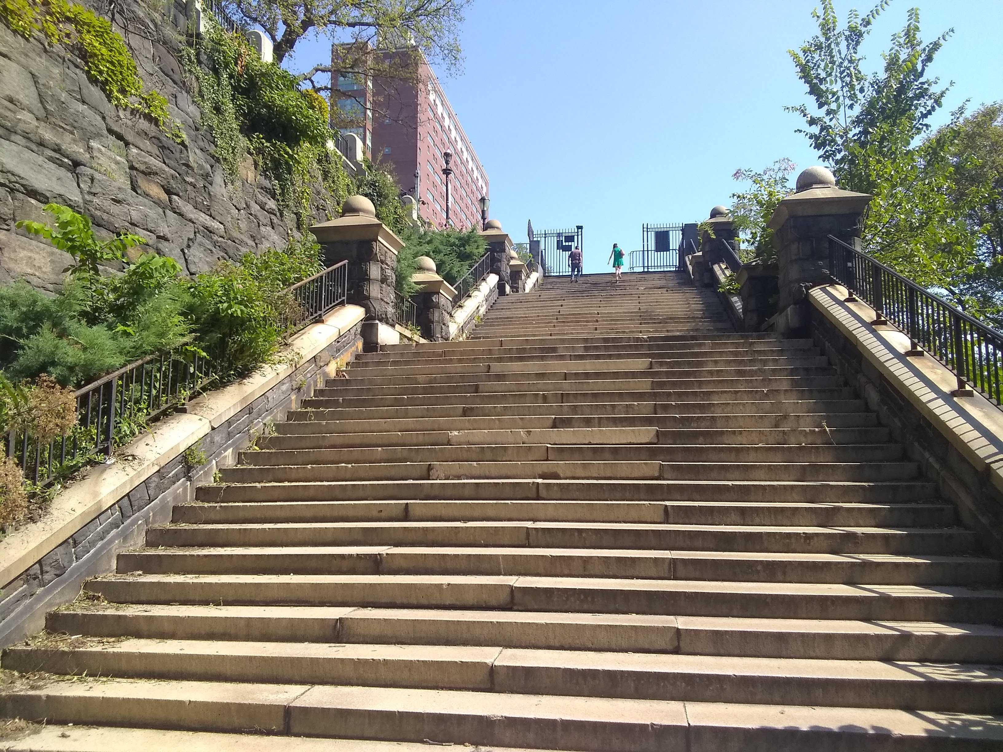 Morningside Park in Manhattan, New York